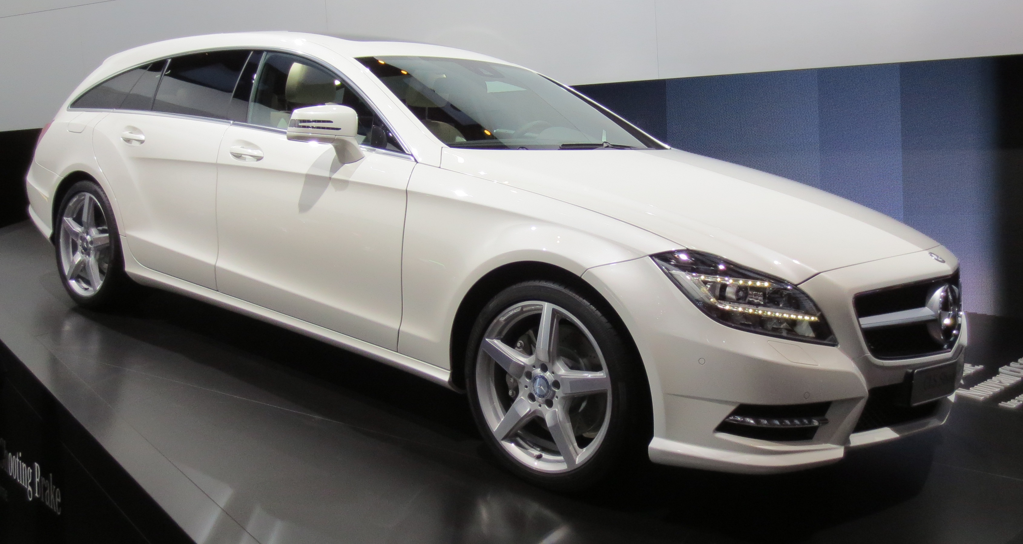 Subject: Mercedes-Benz CLS Shooting Brake Author: Luc106 Date:September 29th, 2012 Event: Salon de l'Automobile 2012 Place/Country: Parc des Expositions, Porte de Versailles, Paris (France) I release all rights in the public domain.